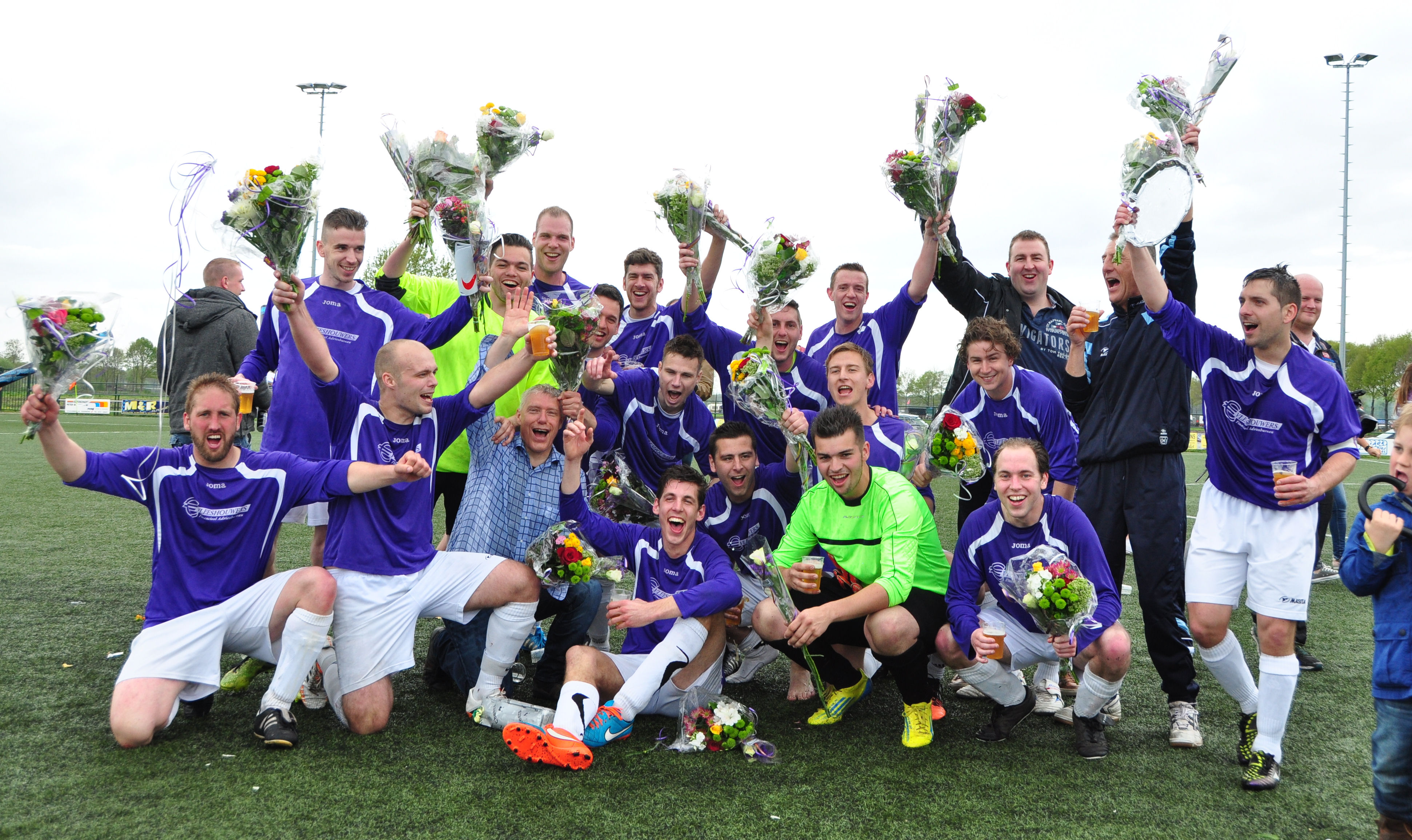 Kampioensfoto H1 2014/2015